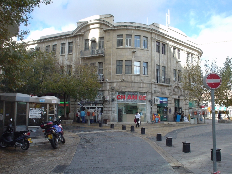 sansur building, Jerusalem